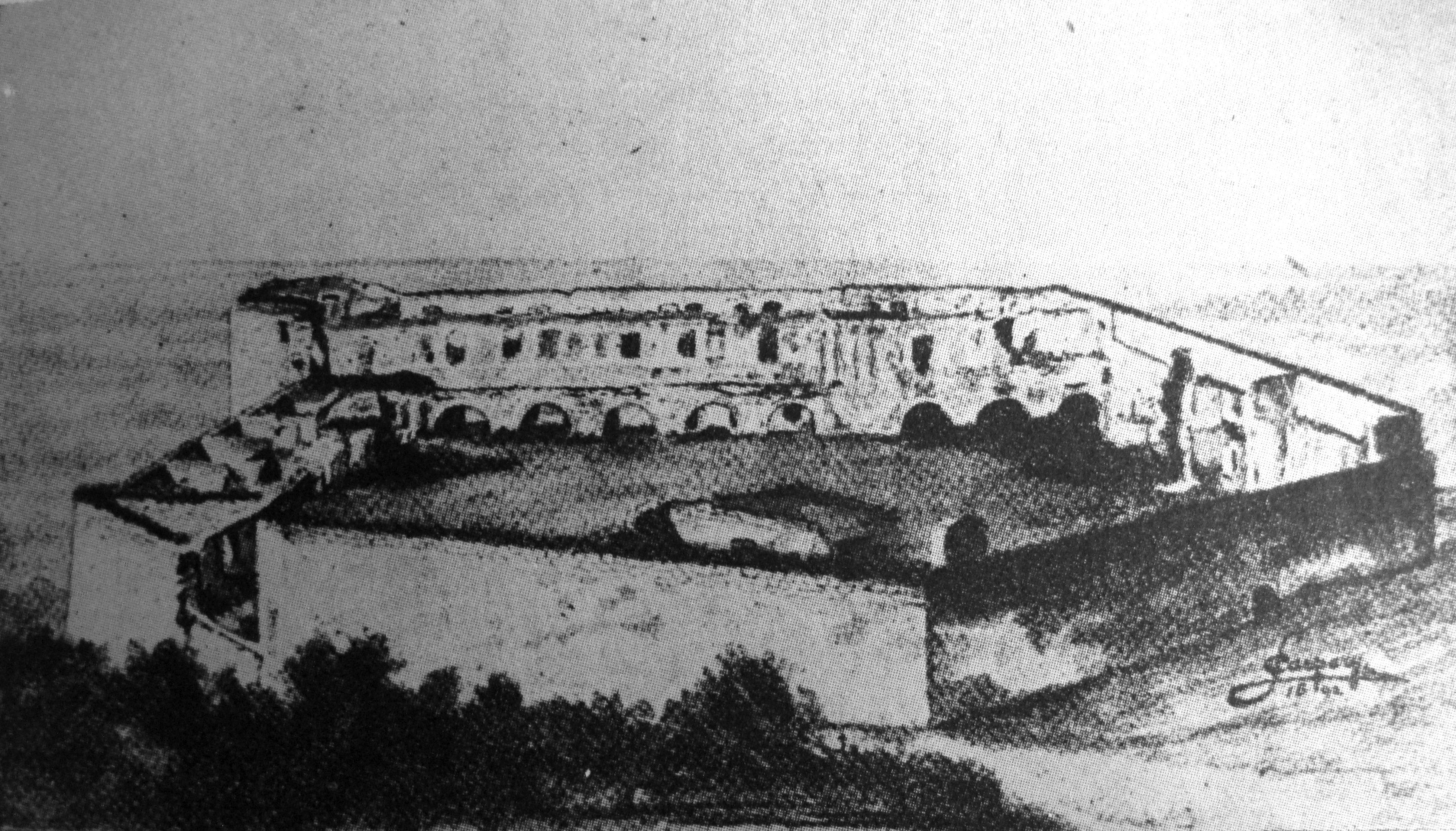 Chortkiv Castle, sketch dated 1892